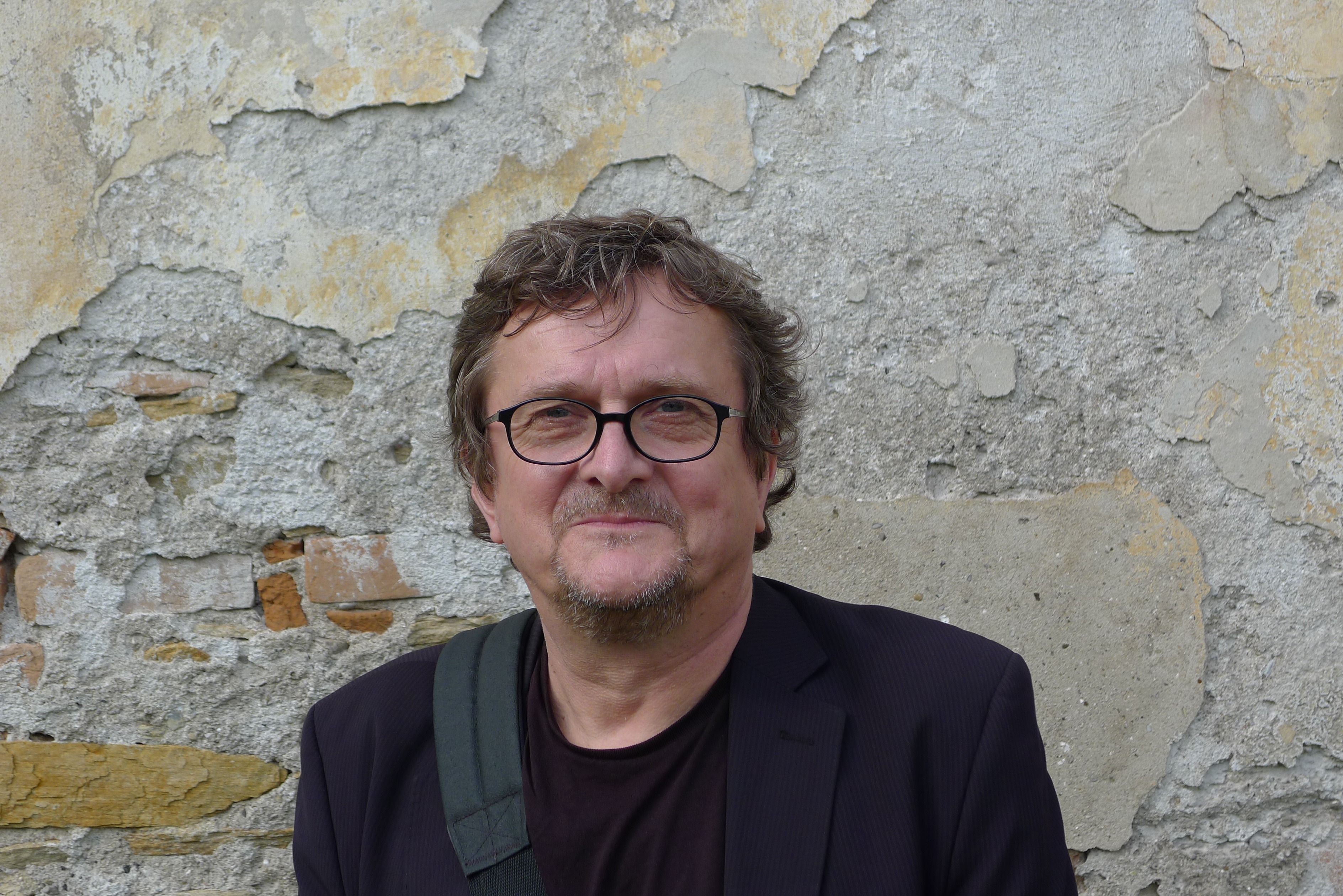 Uli Marchsteiner